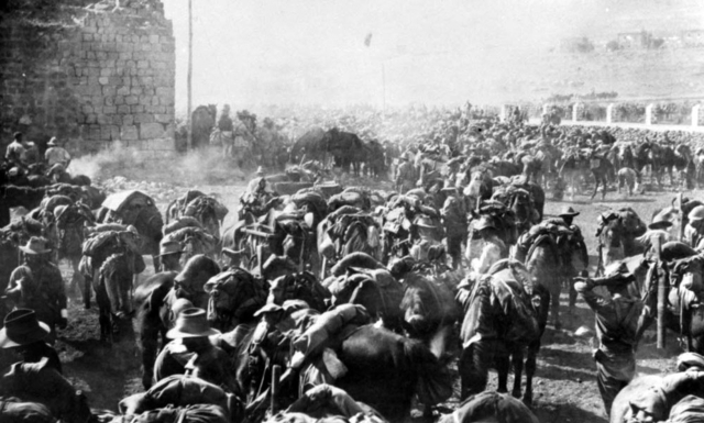 Photograph of Australian 4th Light Horse Brigade being issued with rations at Tiberias. Original caption: "Tiberias, Syria. Men and horses of the 4th Regiment, Australian Light Horse, gather as rations were being issued."